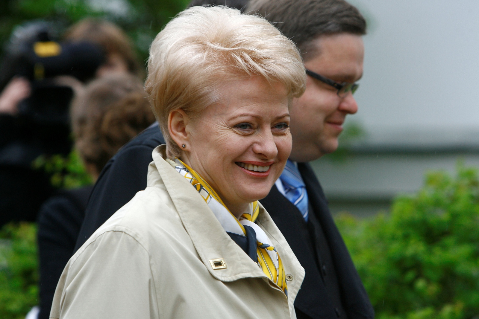 Presidential election of Lithuania, 2009-05-17. Dalia Grybauskaitė in voting station